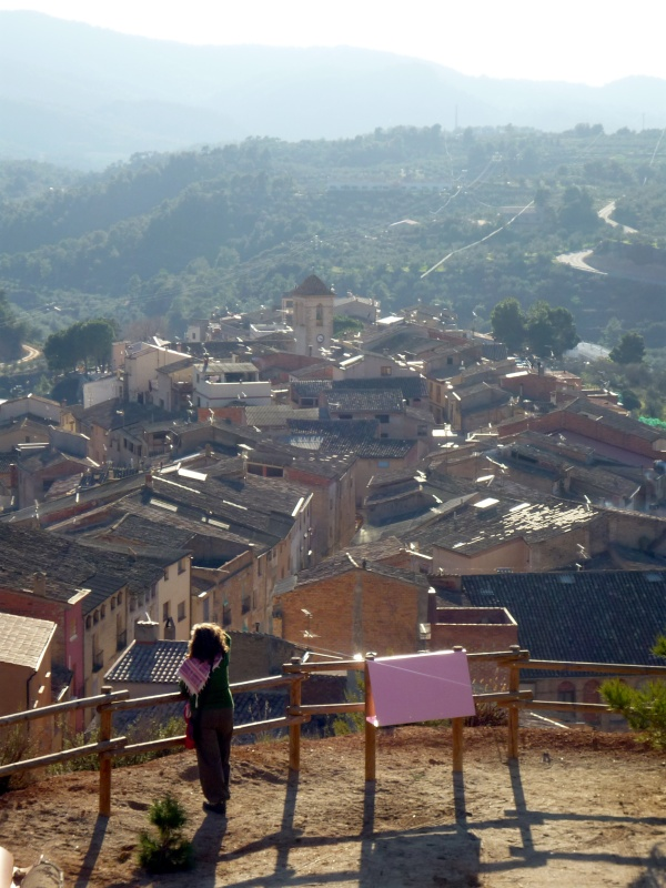 Pan Cabacés, made from the viewpoint